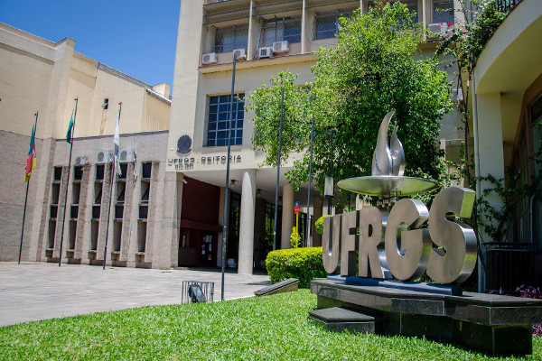 Reitoria UFRGS